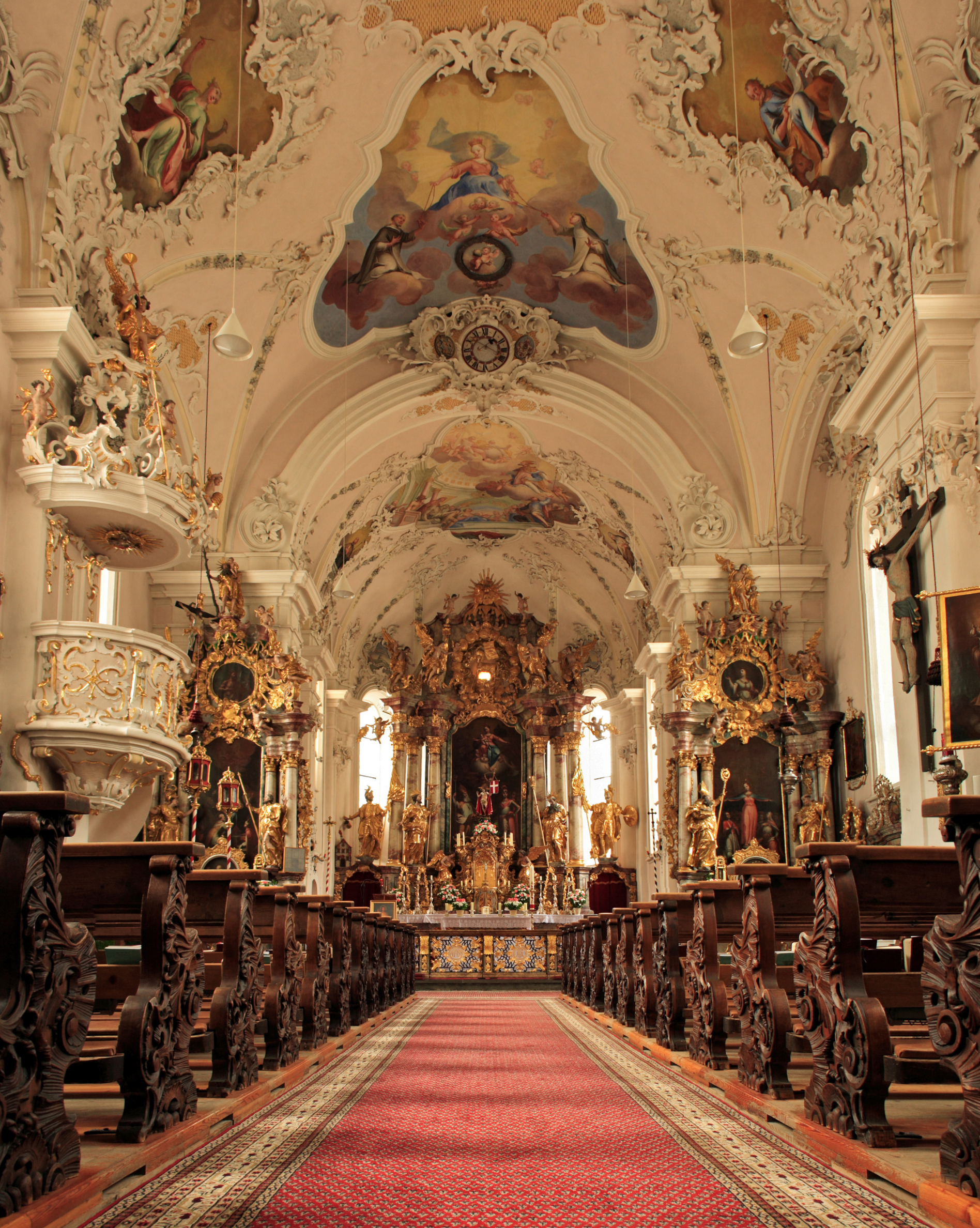 The interior of the St. Nikolaus Church in Ischgl, Austria as viewed from below, from the ground floor. This is a pano shot of three images, assembled with Hugin.